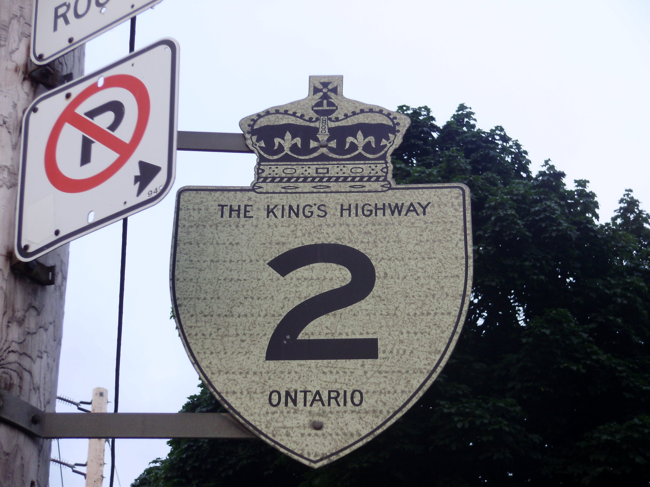 A trailblazer for Ontario's Highway 2 on Lake Shore Boulevard, just past Hillside Avenue, in Toronto, Ontario, Canada.